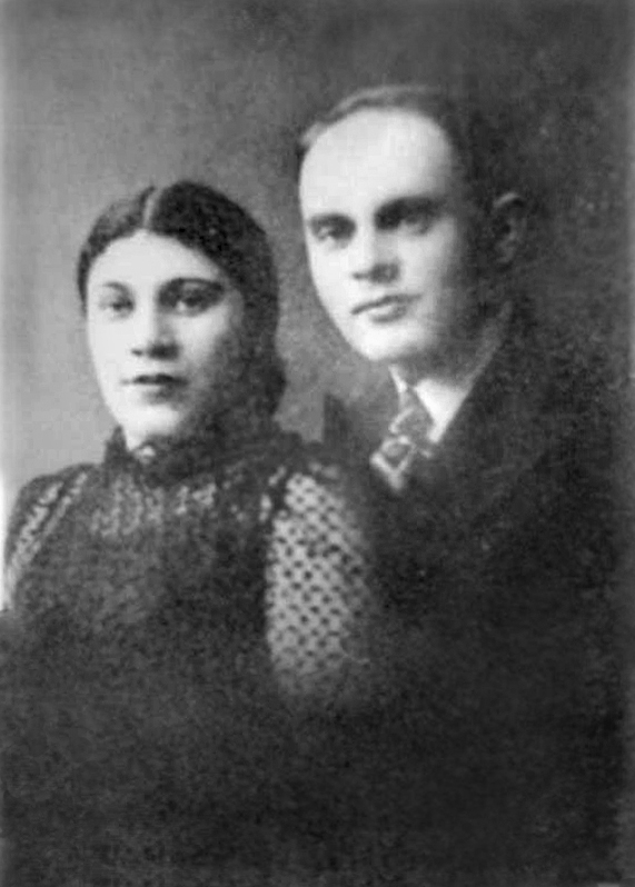 Zalman Gradowski; 1910 - 7 October 1944, a Jewish prisoner in Birkenau and one of the Sonderkommando slave workers, wrote diaries about his unit, which he buried in the camp. Gradowski was in the leadership of the Jewish revolt in the camp. He was murdered. In this photo, Zalman and his wife Sonia on their wedding day. Date ca. 1935